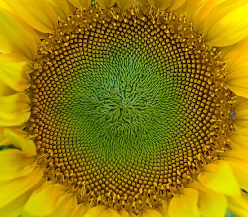 Closeup of the centre of a sunflower I took in Hungary